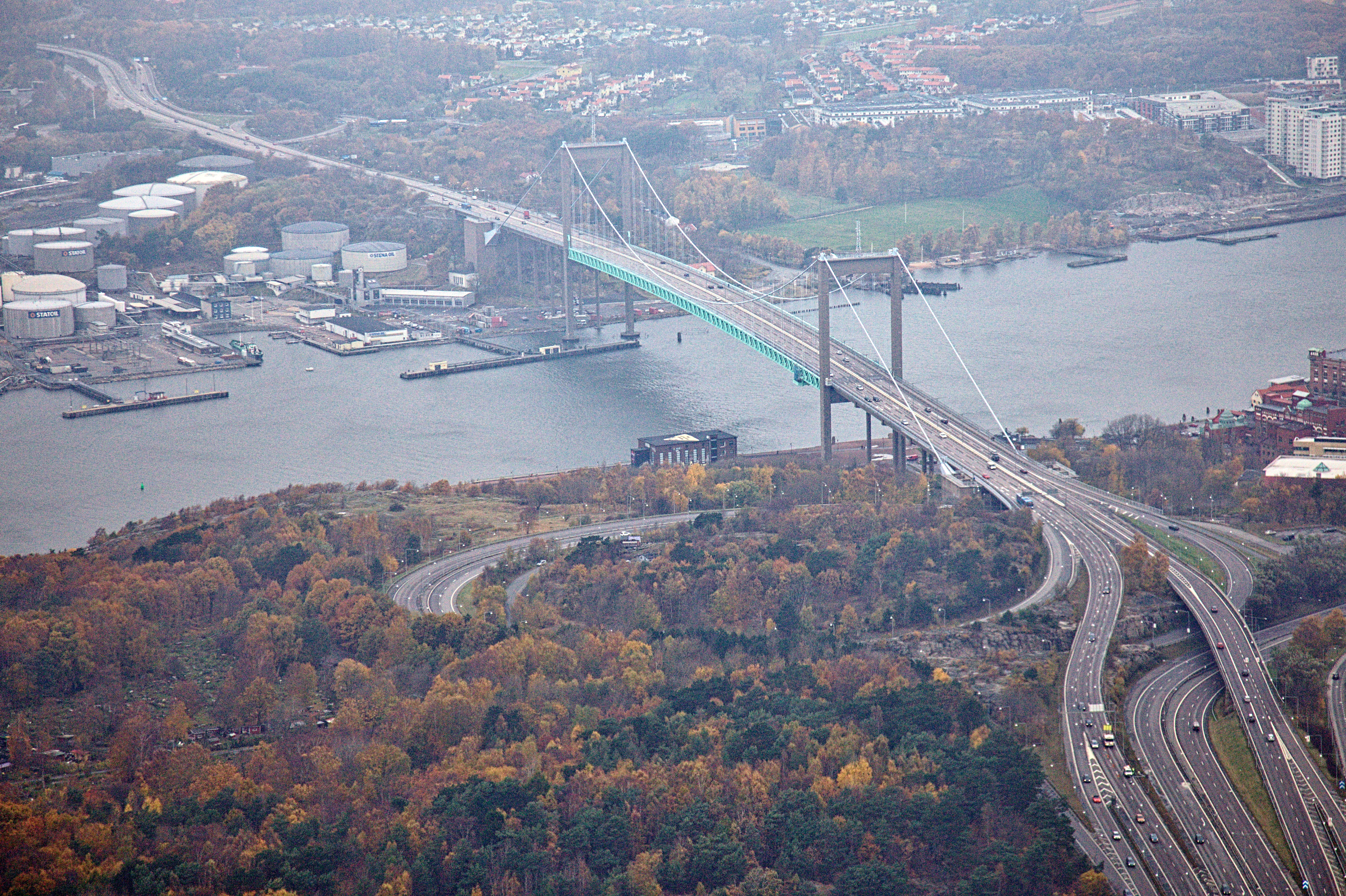 Photo taken on a helicopter over Gothenburg